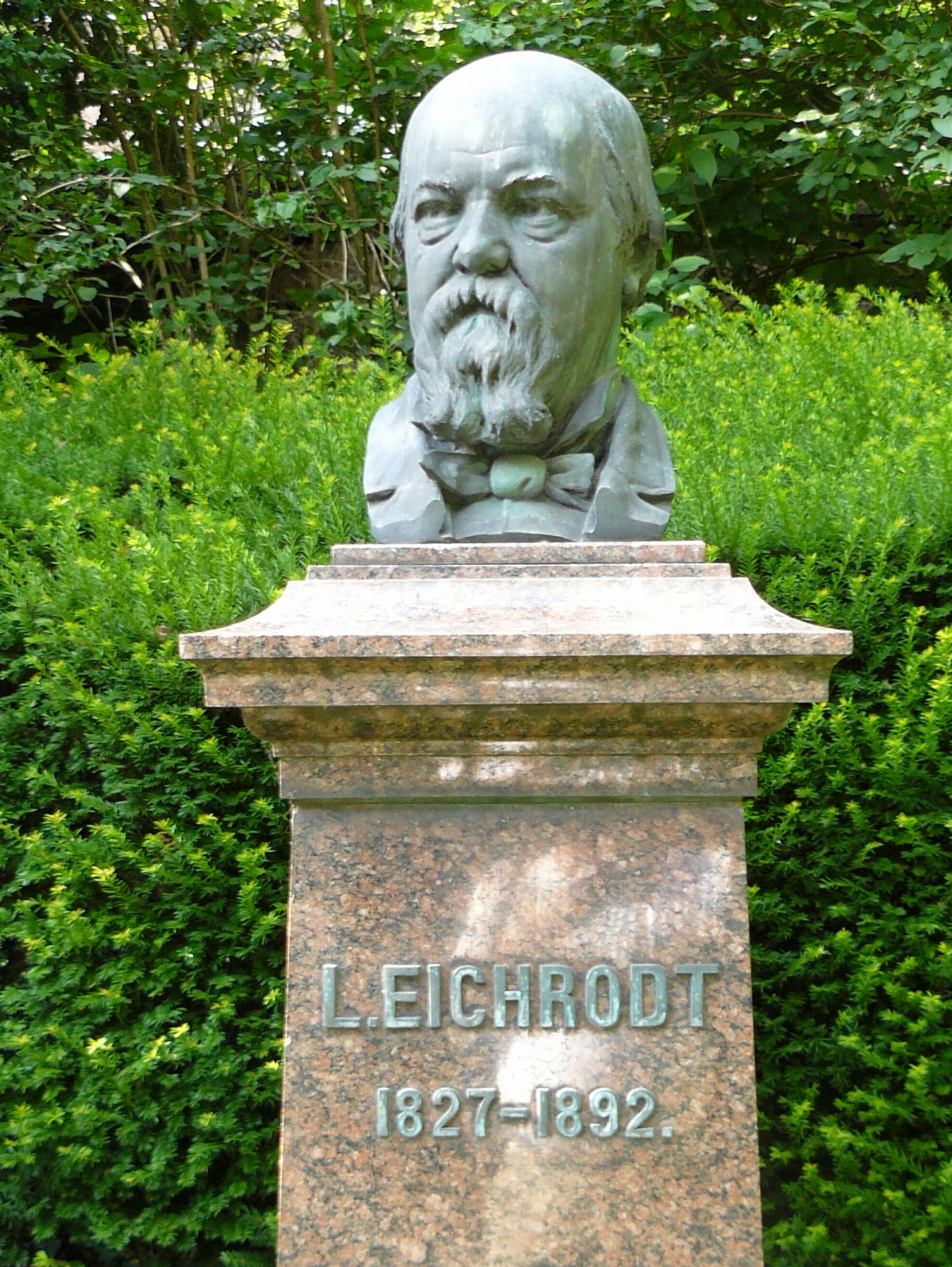 Sculpture of the german author Ludwig Eichrodt in the city garden of Lahr, Black Forest, Germany